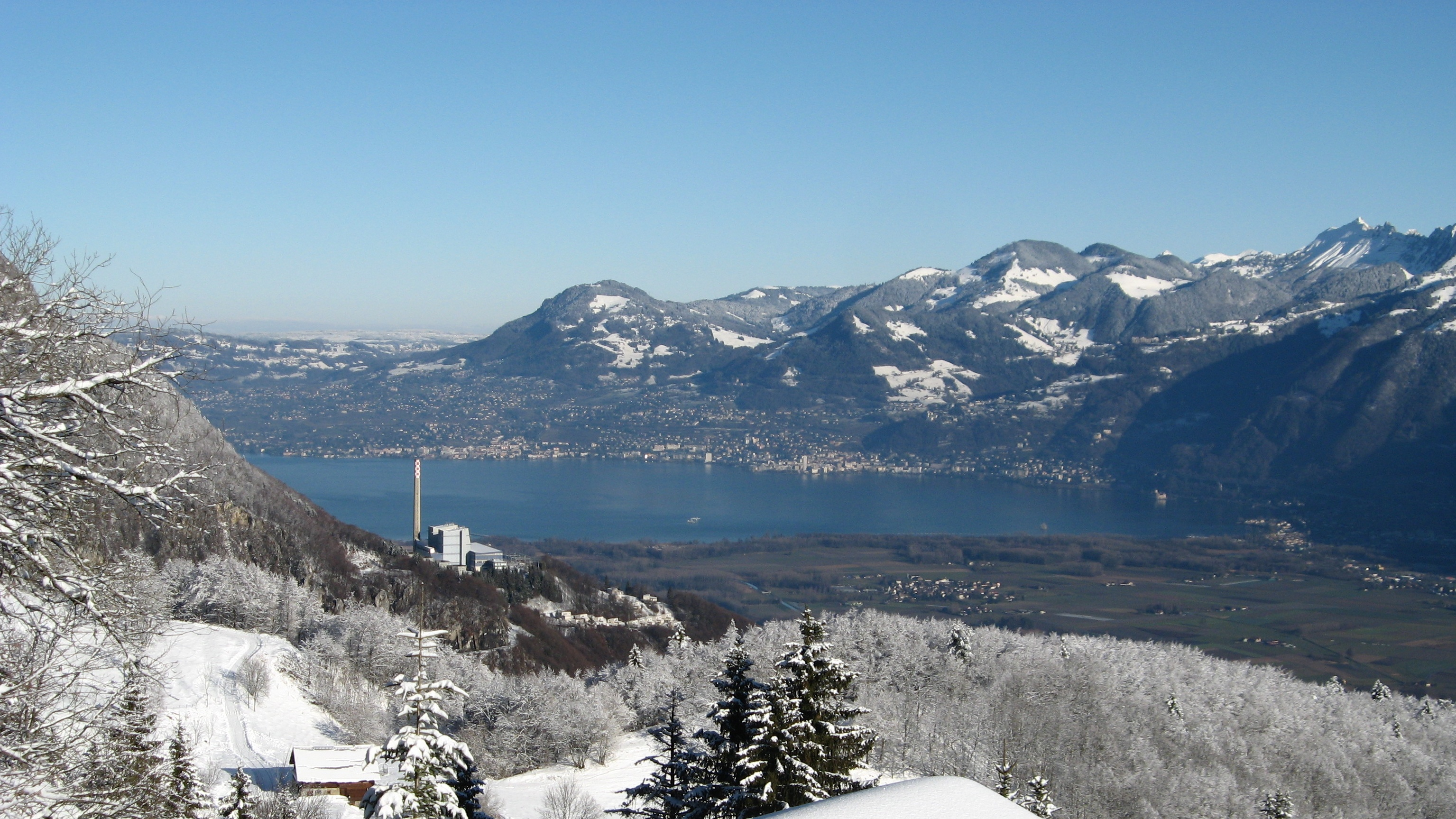 View onto the Lake Geneva form Torgon